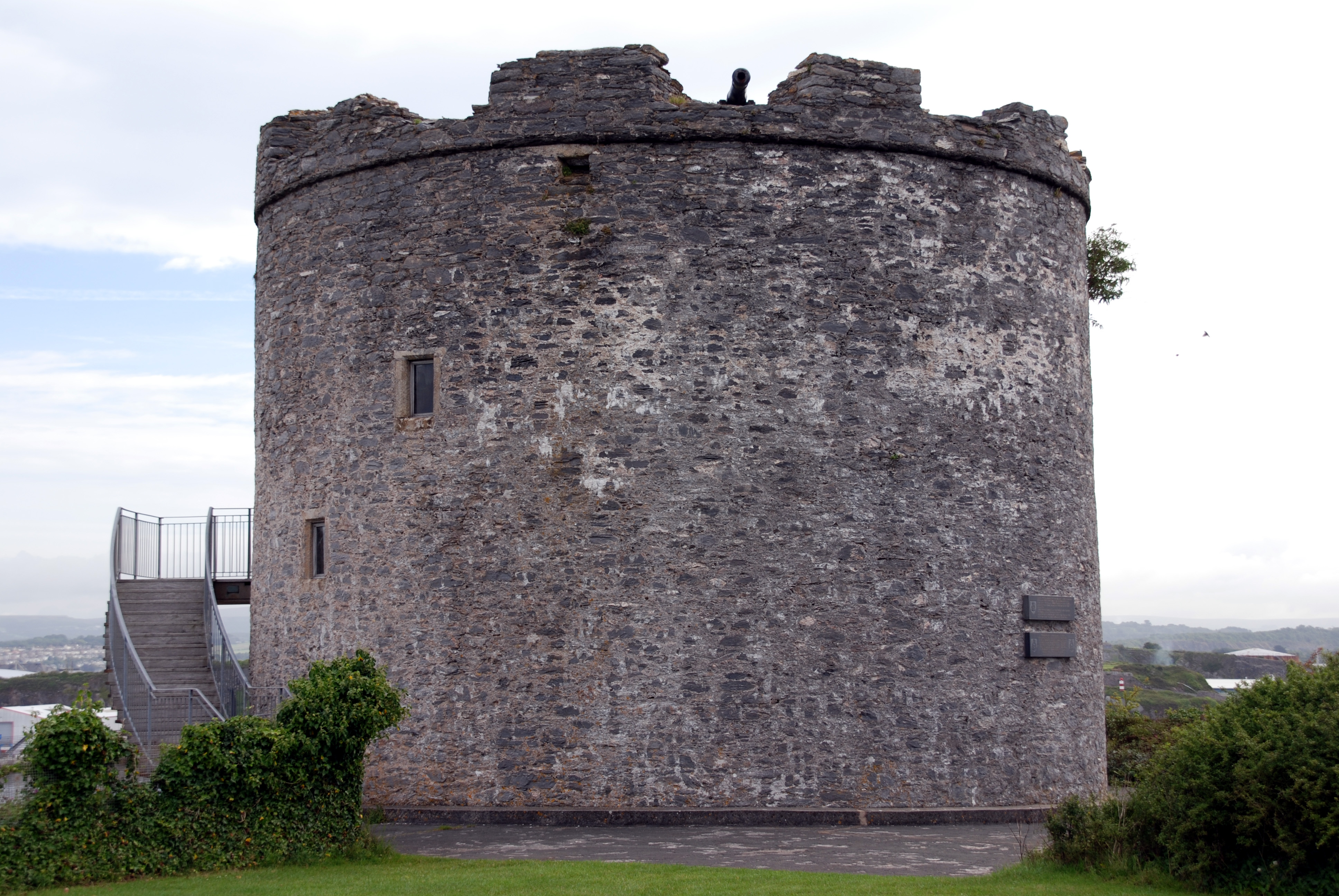 Mount Batten Tower is a grade II listed coastal defence tower dating from around 1582